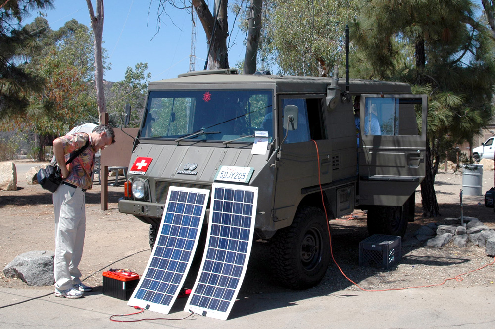 Military all-terrain vehicle made by Steyr-Puch. Photographed near lake Dixon in Southern California during a Field Day arranged by Escondidio Amateur Radio Society